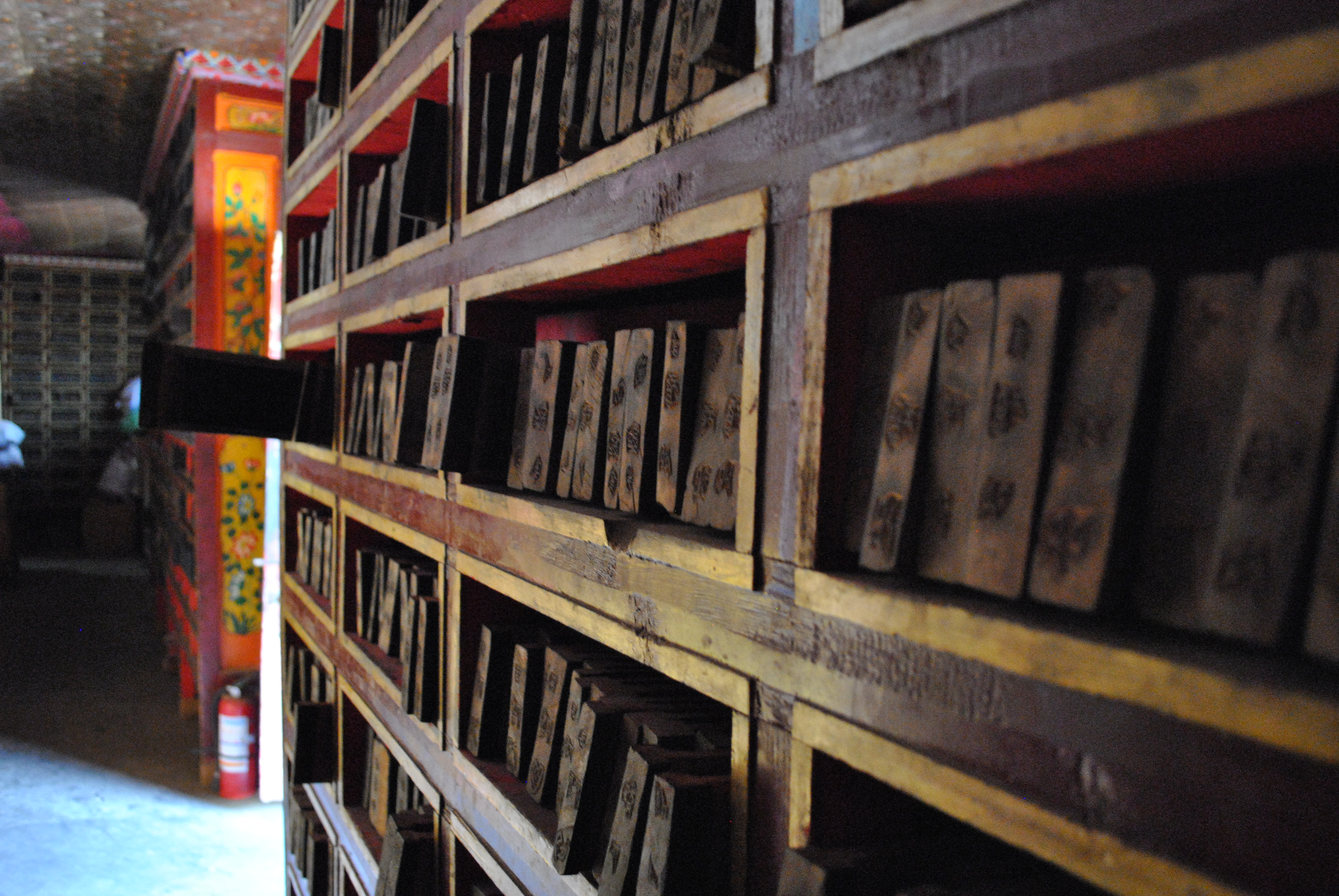 Woodblocks used for printing scriptures, Sera monastery, Tibet